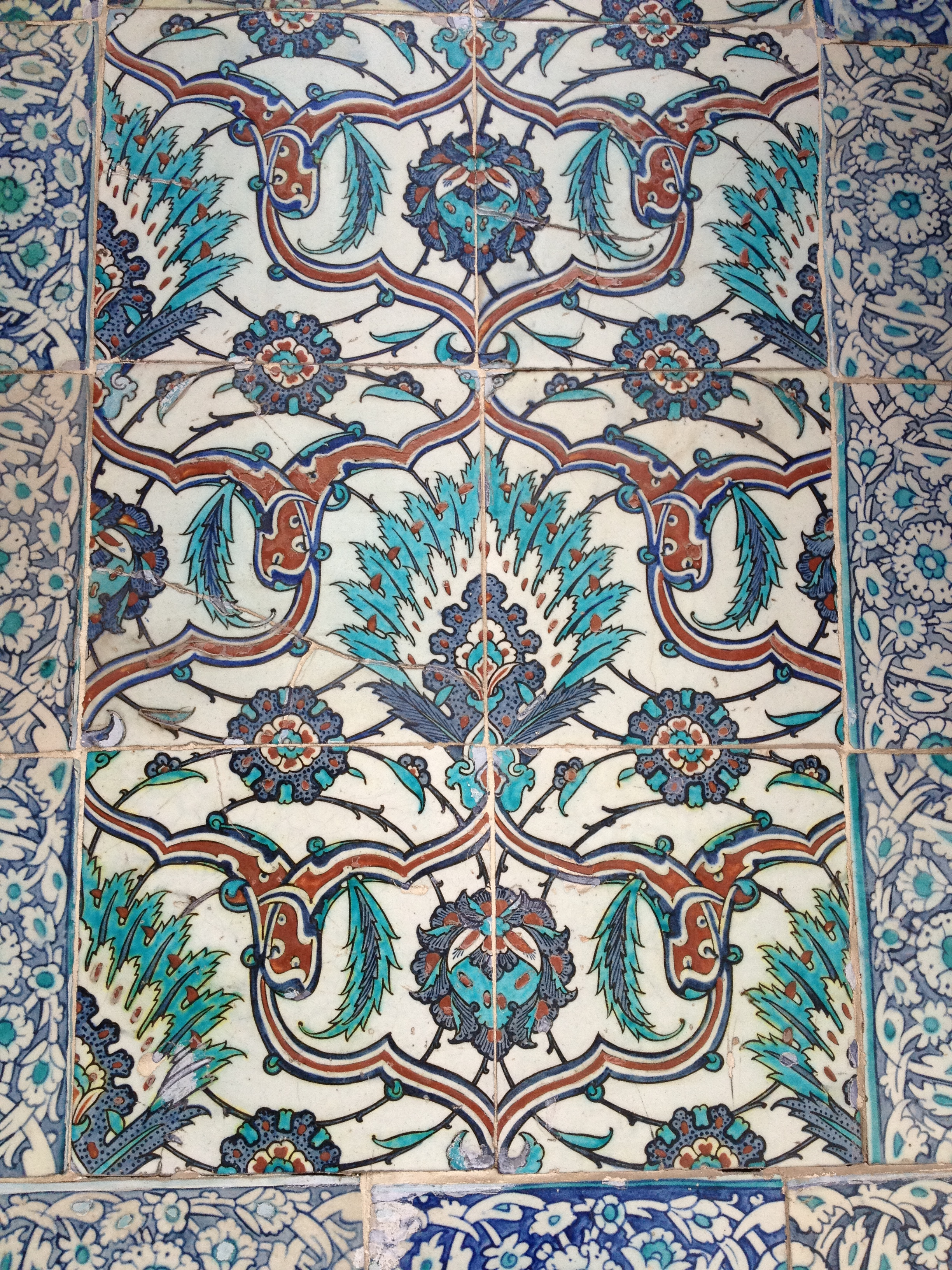 Tiles in the Topkapı Palace